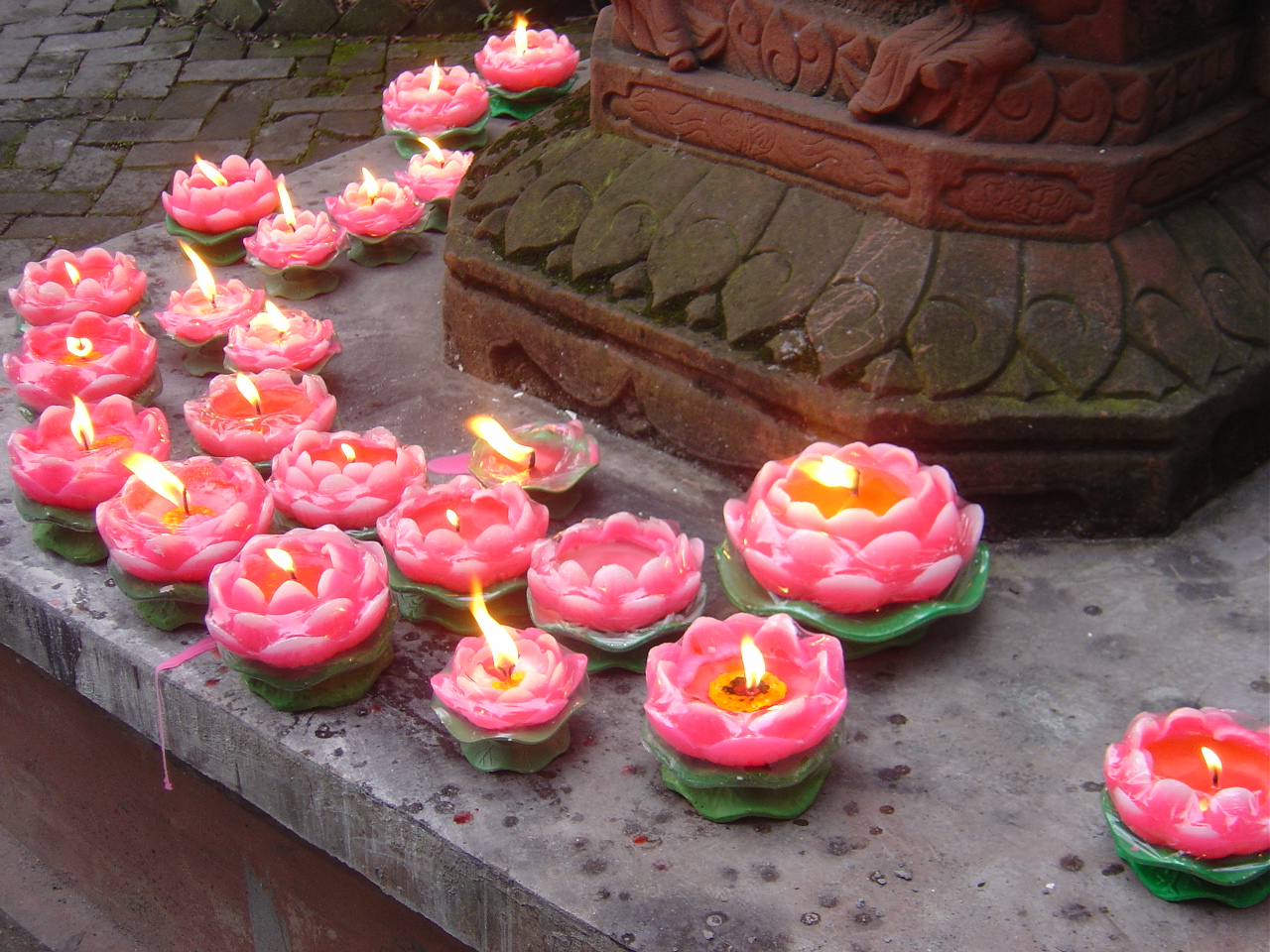 Candles in buddhist temple near Emeshan, China 2005-08-23 author : Noé LECOCQ